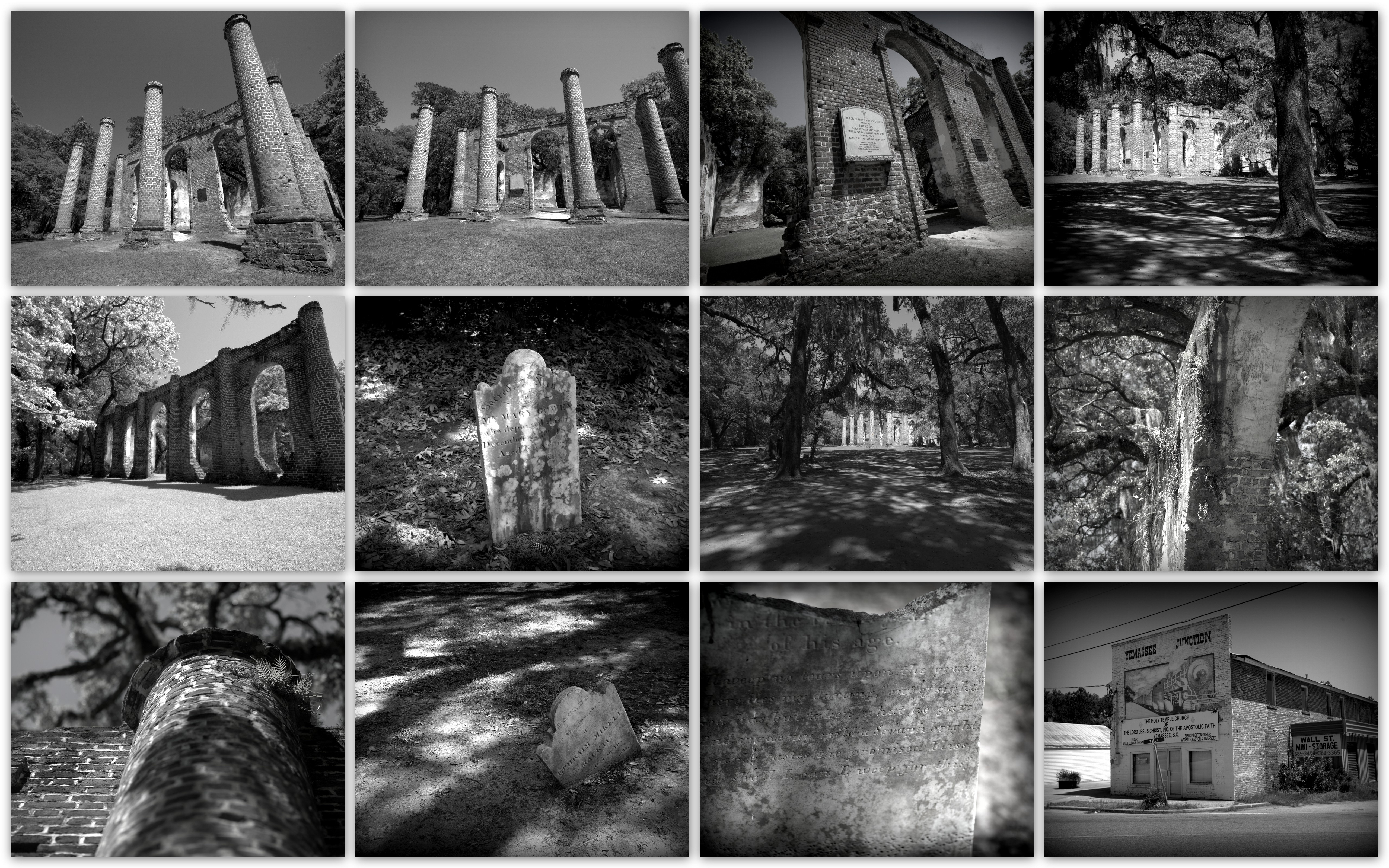 Old Sheldon Church ruins